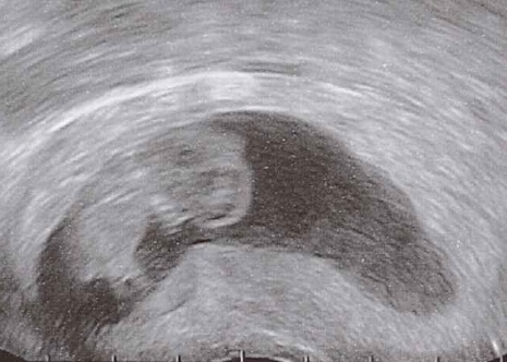 A fetus of a gestational age of 10 weeks (by a crown-rump length of 33mm) being expelled from the uterus during a medical abortion. The opening of the cervix is seen at lower left in the image.